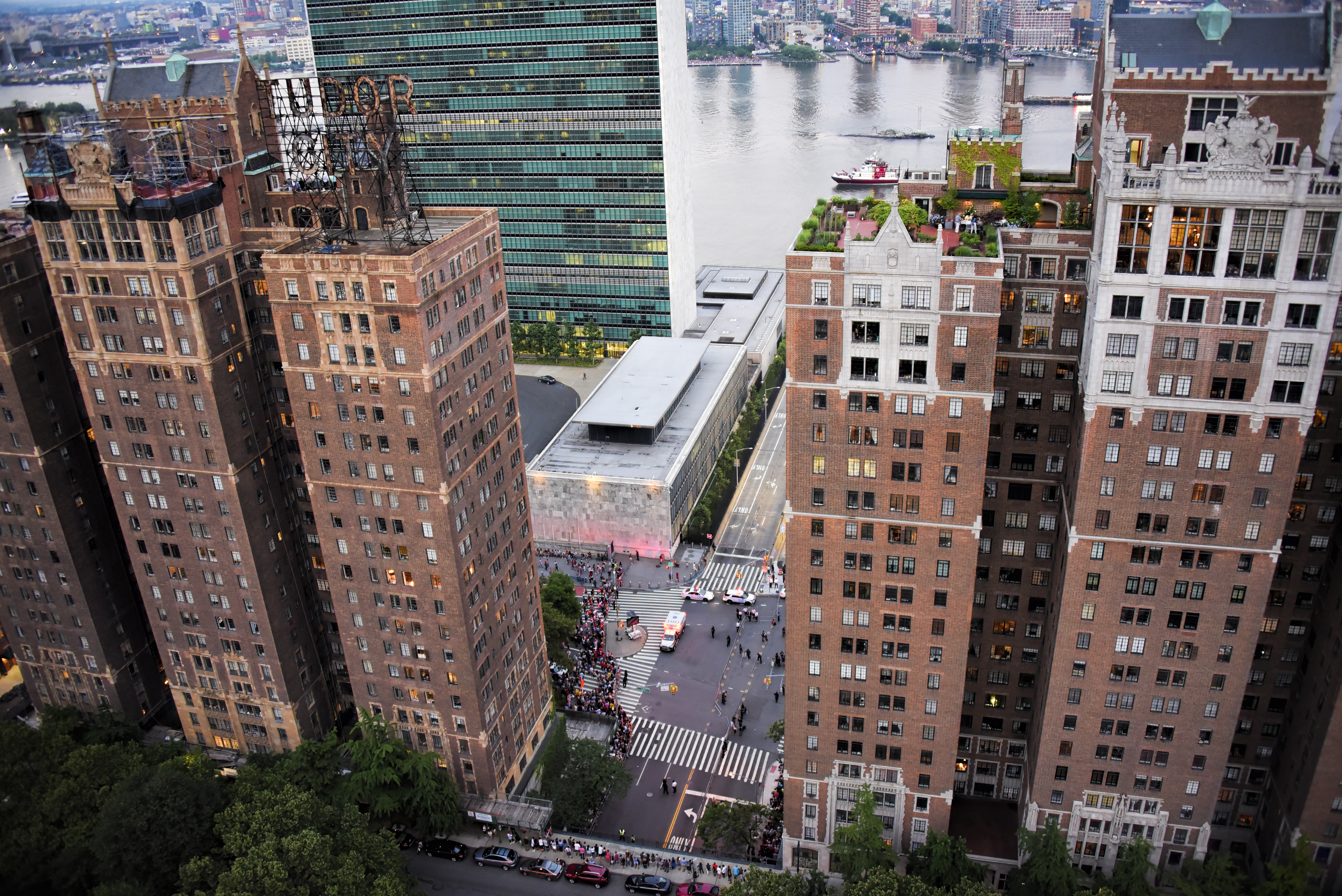 Right after the 2017 Macy's fireworks as people drifted away from the area.